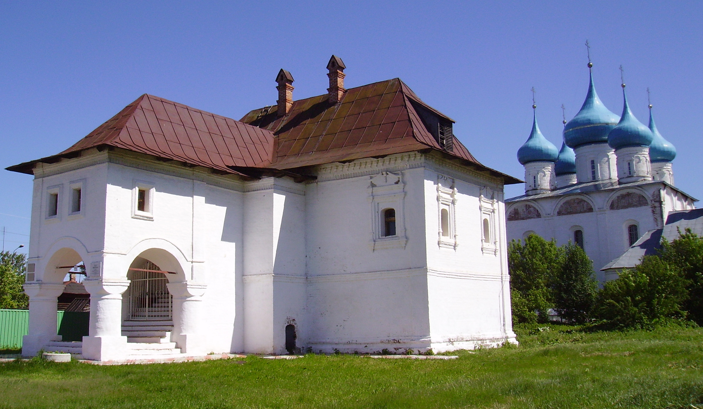 Gorokhovets. Oparin House and Blagoveshchensky Church (right)